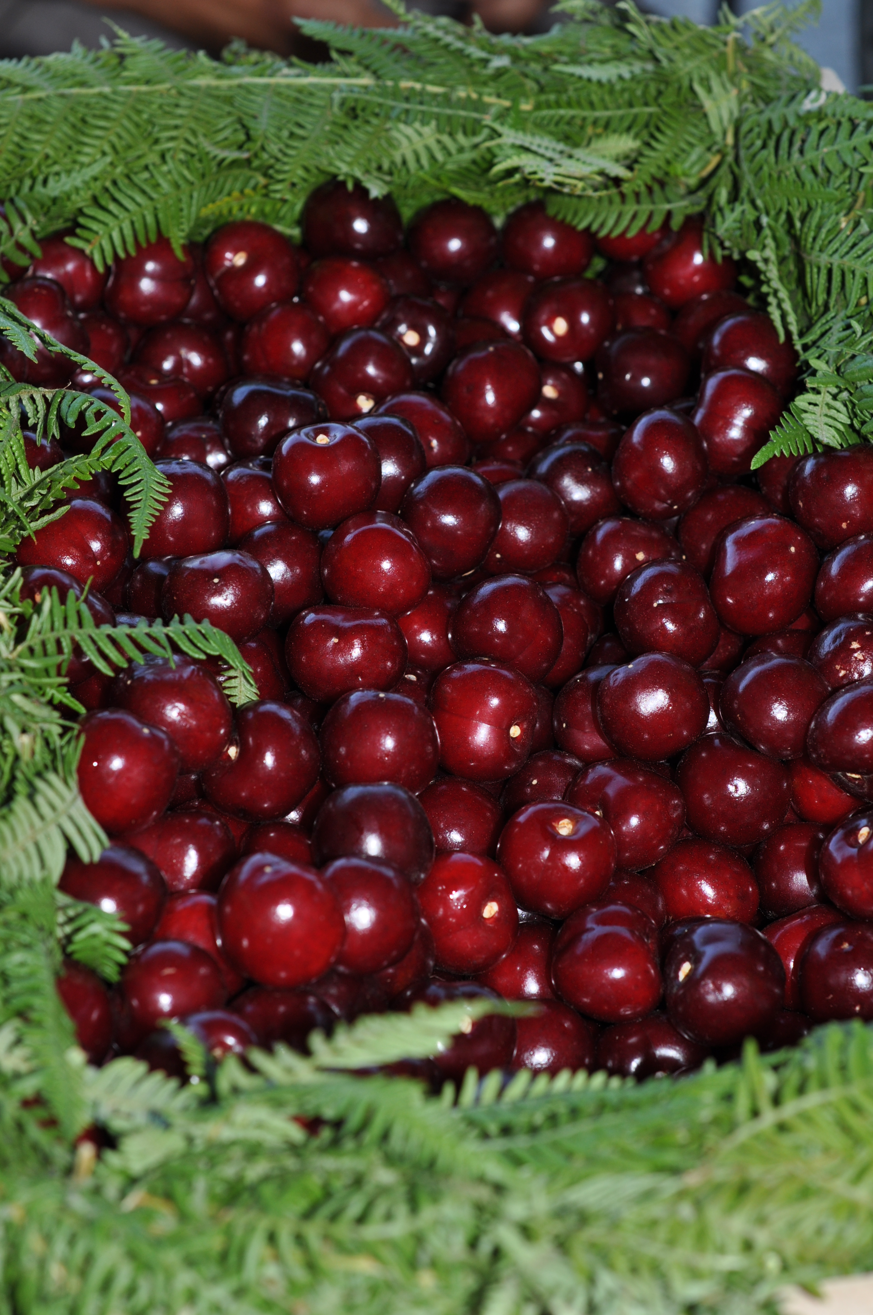 Cherries from the Jerte Valley (Cáceres province, Spain) protected for shipment in the traditional manner, with fern leaves.